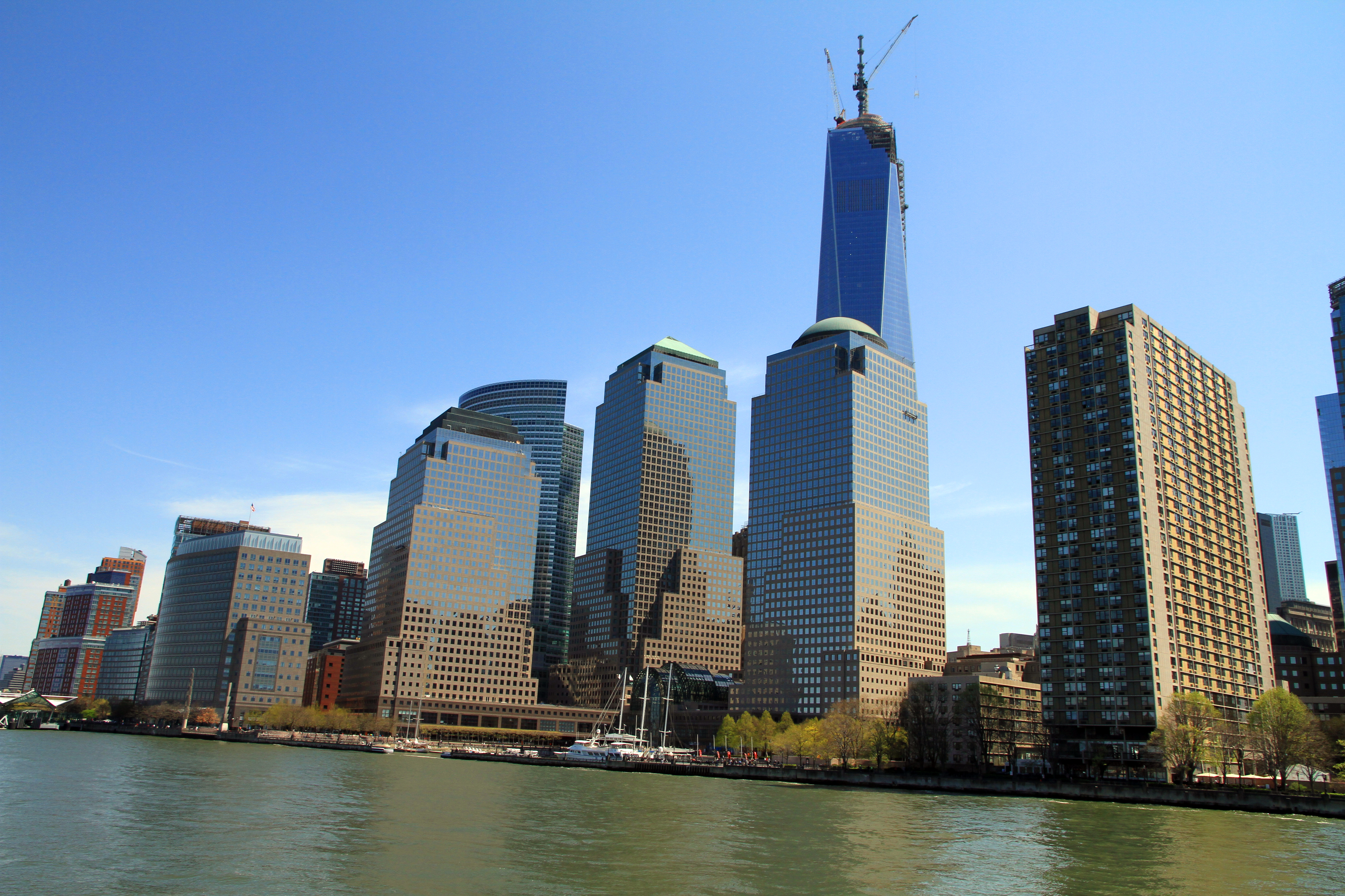 Battery Park City from Hudson River